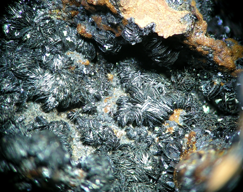 Several clusters of Chalcophanite plates (image width: 4 mm) Locality: Mohawk Mine (Clark Station Mine; Pactolus Mine; Wilshire prospect), Mohawk Hill, Pactolus, Clark Mountain District, Clark Mts (Clark Mountain Range), San Bernardino County, California, USA